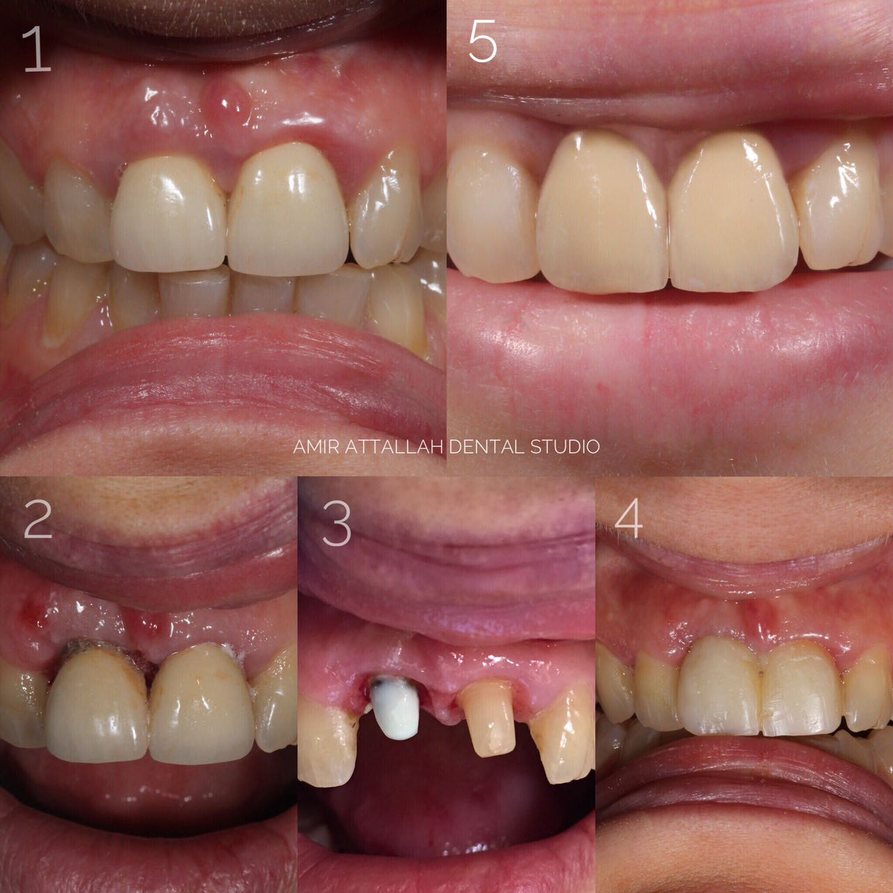 1- Crowns of inappropriate size and shape 2- Crown lengthening performed 3 - Opaque resin materiel to mask the underlying metal custom made post 4- Temporary crown made using layered composite 5- Final crown made of feldspathic VM9 porcelain. The internal and external effects completed using lustre paste GC and cemented with opaque resin cement.